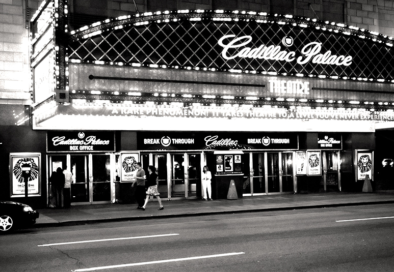 Cadillac Palace Theatre